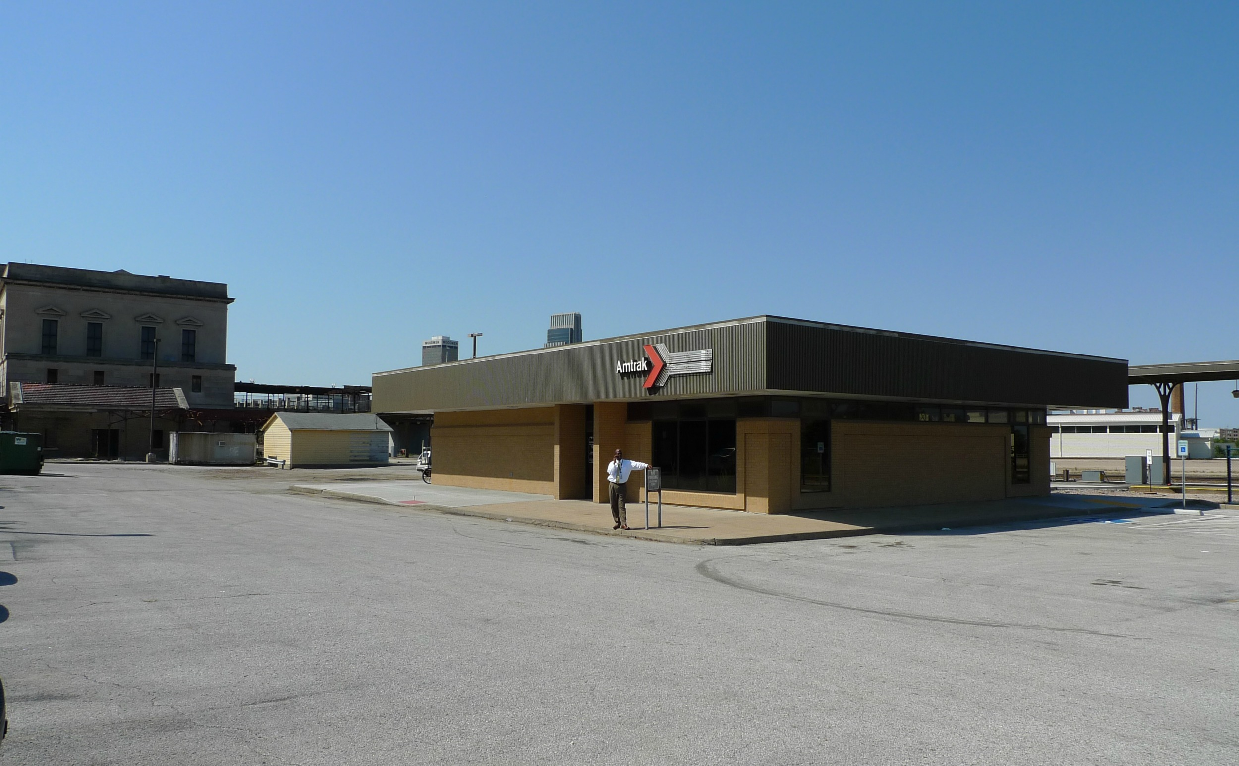 Amtrak Omaha Station with original CB&Q depot behind it.